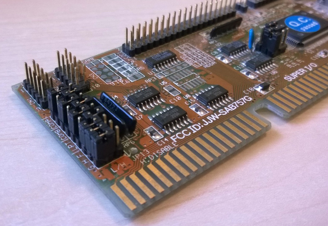 Jumpers on a 1992 ISA bus IO expansion board. Has options for setting COM1/COM2/LPT addresses among others.